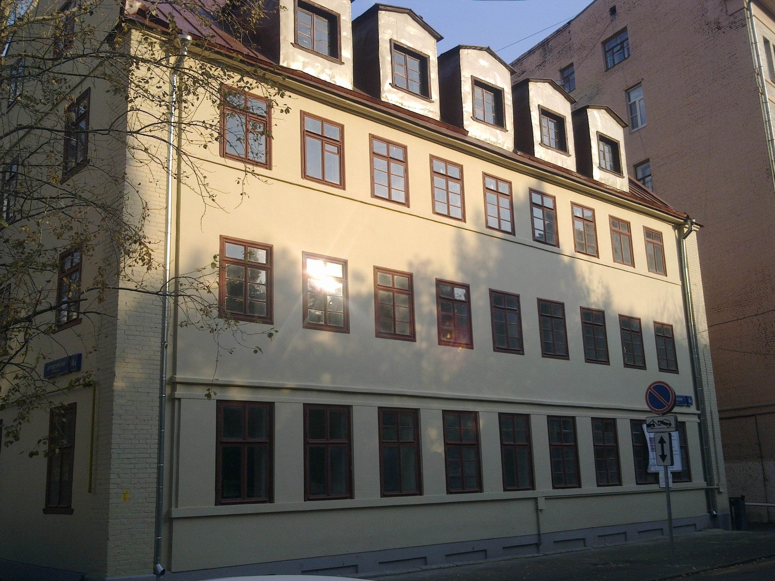 6-й Ростовский переулок, дом 4-а